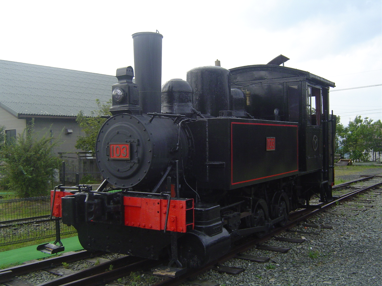 To-re No.103 steam locomotive (ex. Nagato Railway 101)